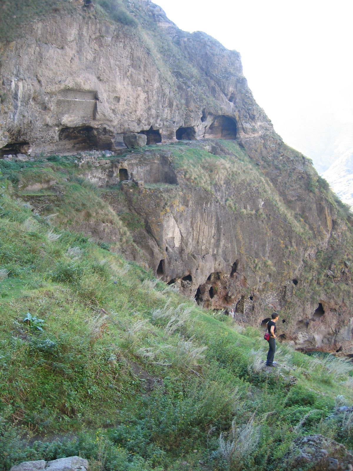 Vanis Kvabebi in Aspindza district Georgia